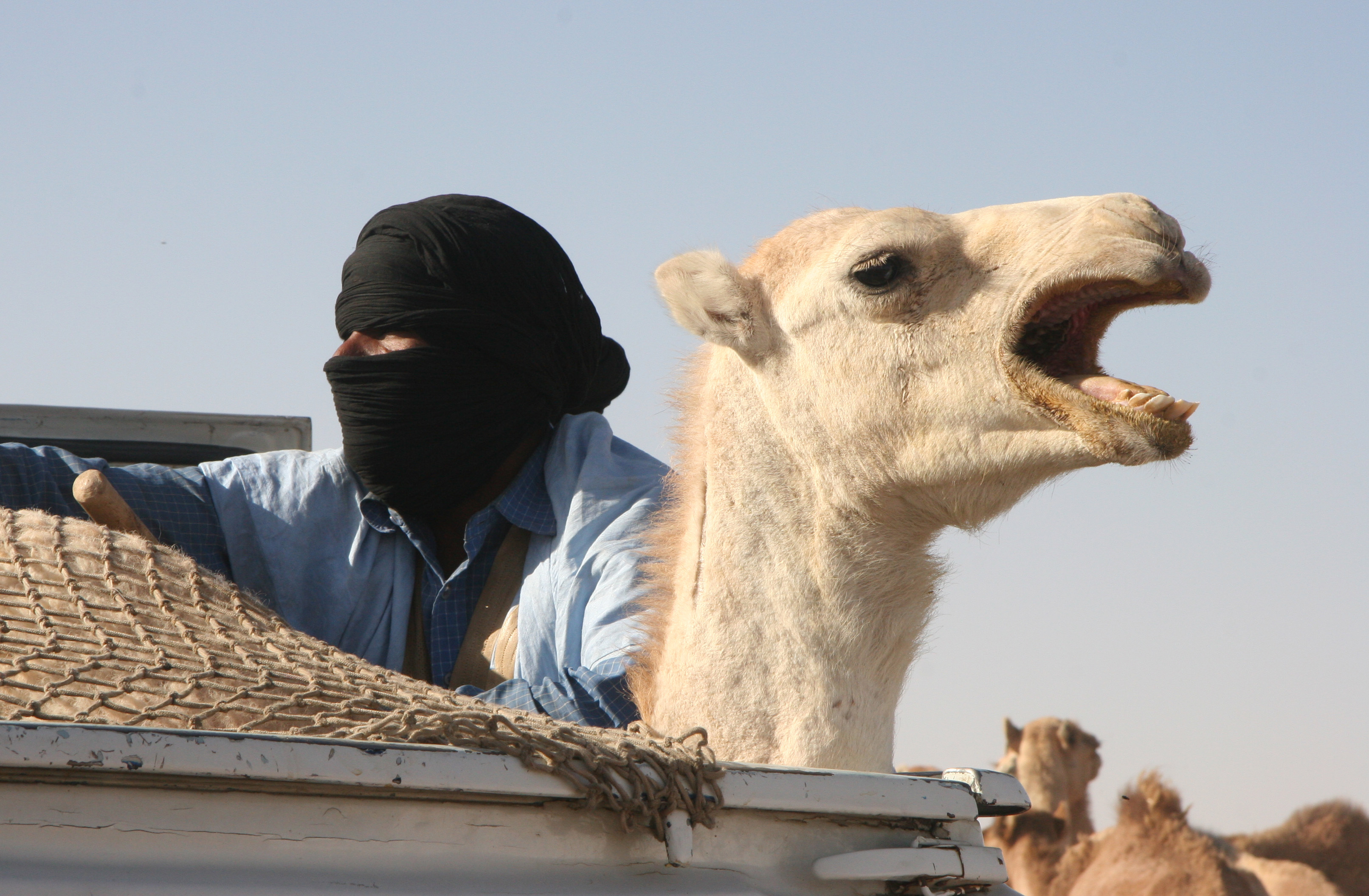 Camelmarket near Nouackhott, the capital of Mauritania in West Africa. Camels are usually transported to the very sandy market in the back of a pick up truck.